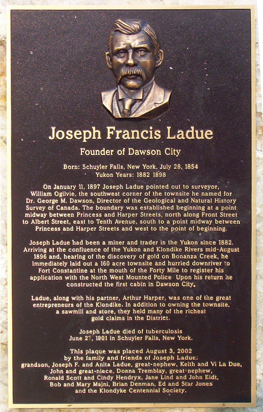 Plaque of Joseph Ladue in Dawson City, Yukon.